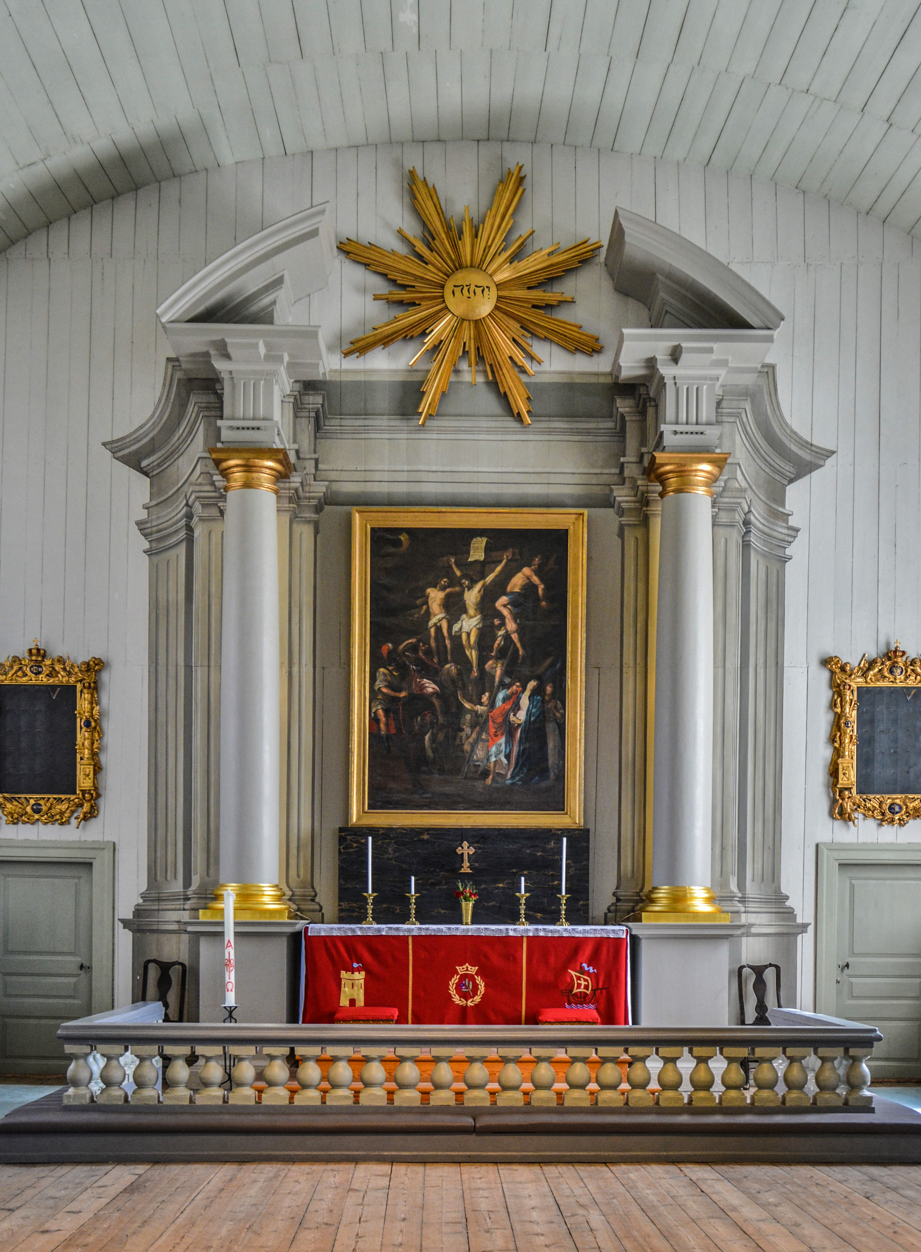 Admiralty Church,Karlskrona.The chancel